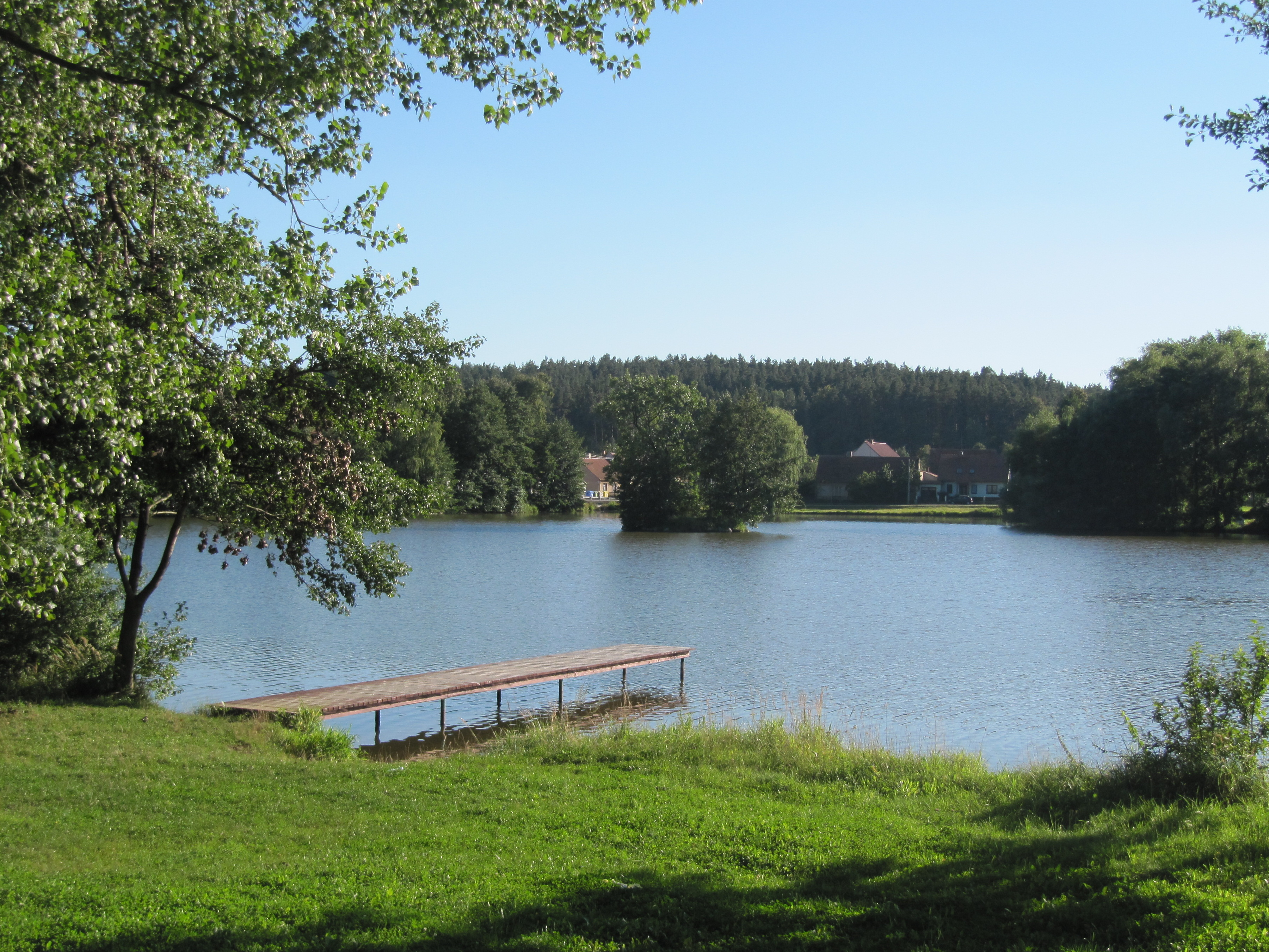 Nárameč in Třebíč District, Czech Republic. Pond Gbel.